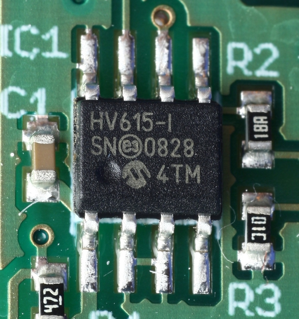 A Microchip PIC 12HV615 MCU in SOIC package mounted on a PCB